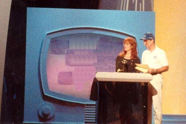 The Bundys: Peggy Bundy (Katey Sagal) & Al Bundy (Ed O'Neill) - at the rehearsal for the 41st Annual Emmy Awards, 9/16/89 . Permission granted to copy, publish, broadcast or post but please credit "photo by Alan Light" if you can.